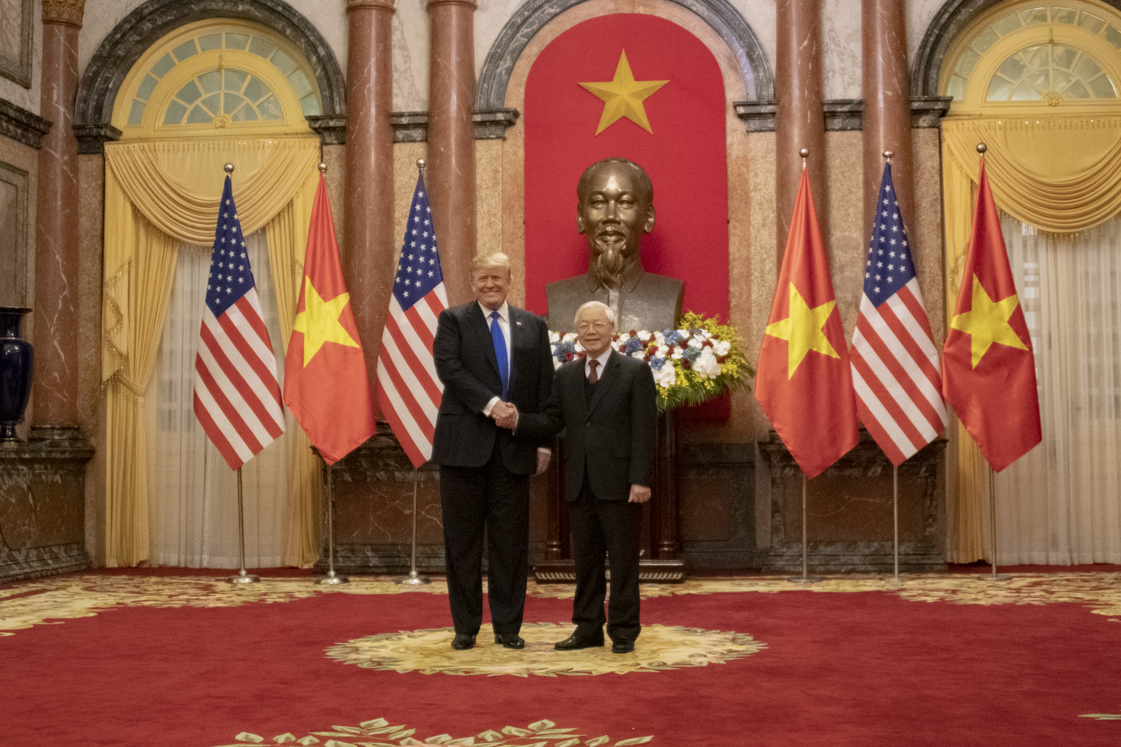 U.S. Secretary of State Michael R. Pompeo joins President Donald J. Trump in Meetings with Vietnamese President Nguyễn Phú Trọng in Hanoi, Vietnam, on February 27, 2019. [State Department photo by Ron Przysucha/ Public Domain]